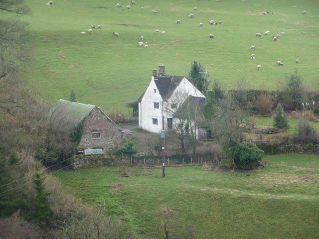 Little Llwygy Farmhouse, a Grade II* listed house near Llanvihangel Crucorney in the Black Mountains, Monmouthshire, Wales. Probably dating from the early 1500s.